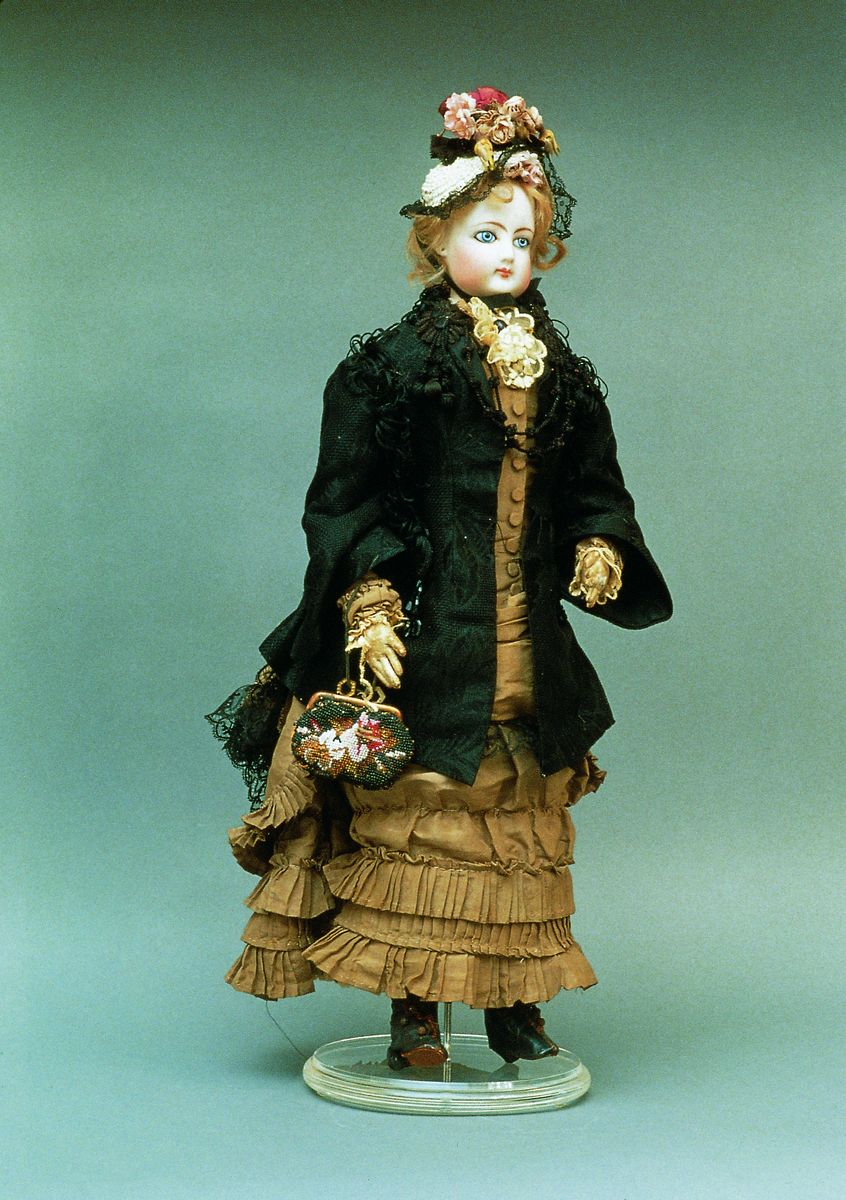 Lola Anglada's Dolls Collection